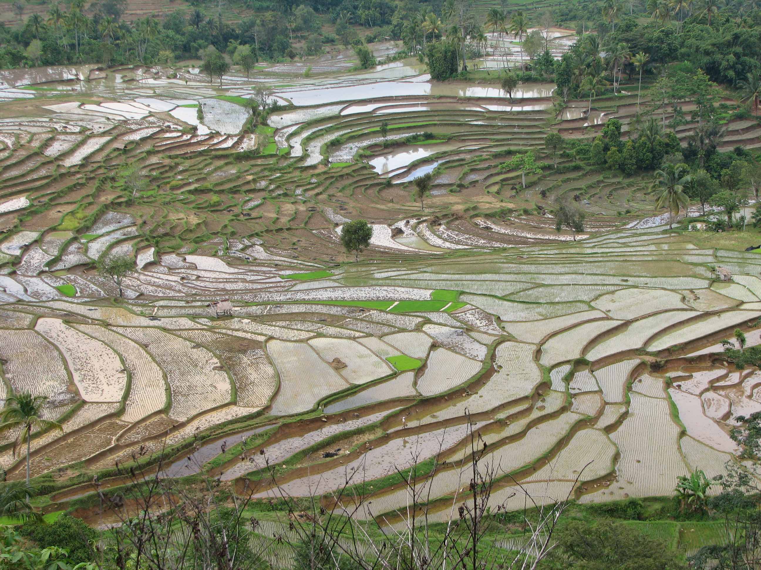 landscape in Indonesia